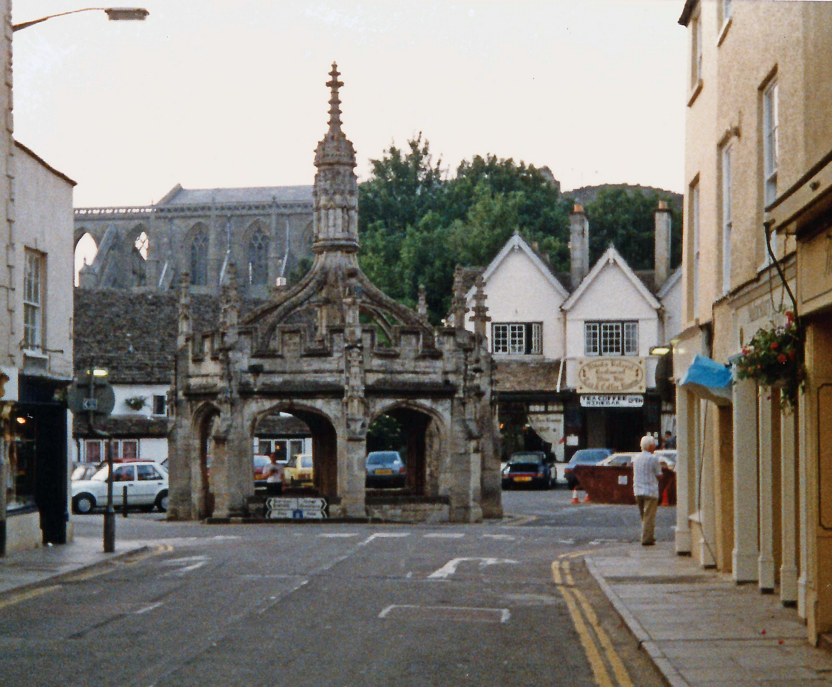 Malmesbury Market Cross with Abbey in b/g